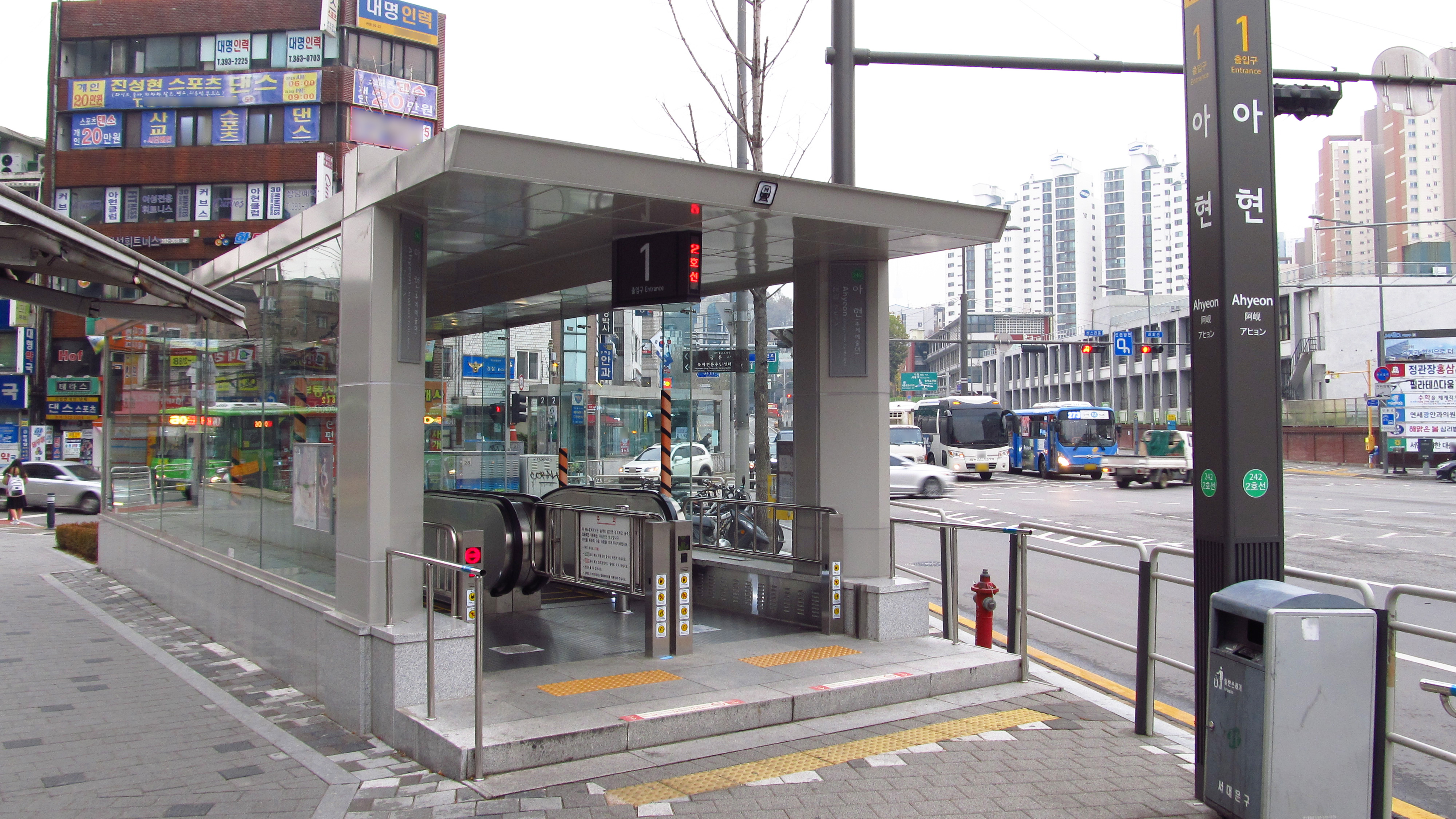 The no.1 entrance to Ahyeon Station on the Seoul Metro Line 2 in Mapo-gu, Seoul, Republic of Korea(South Korea)